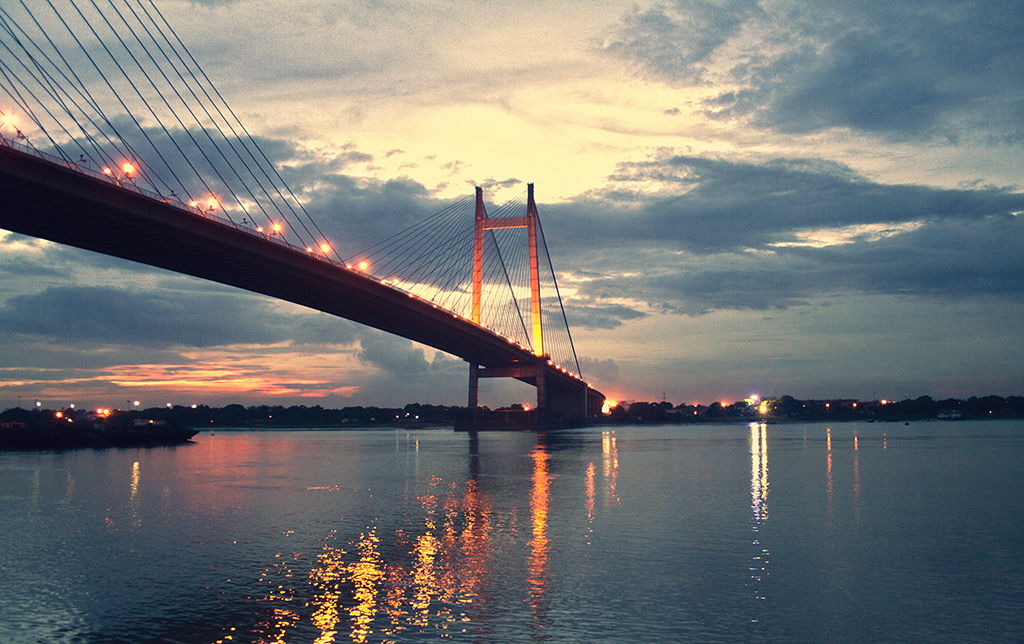 Vidyasagar Setu